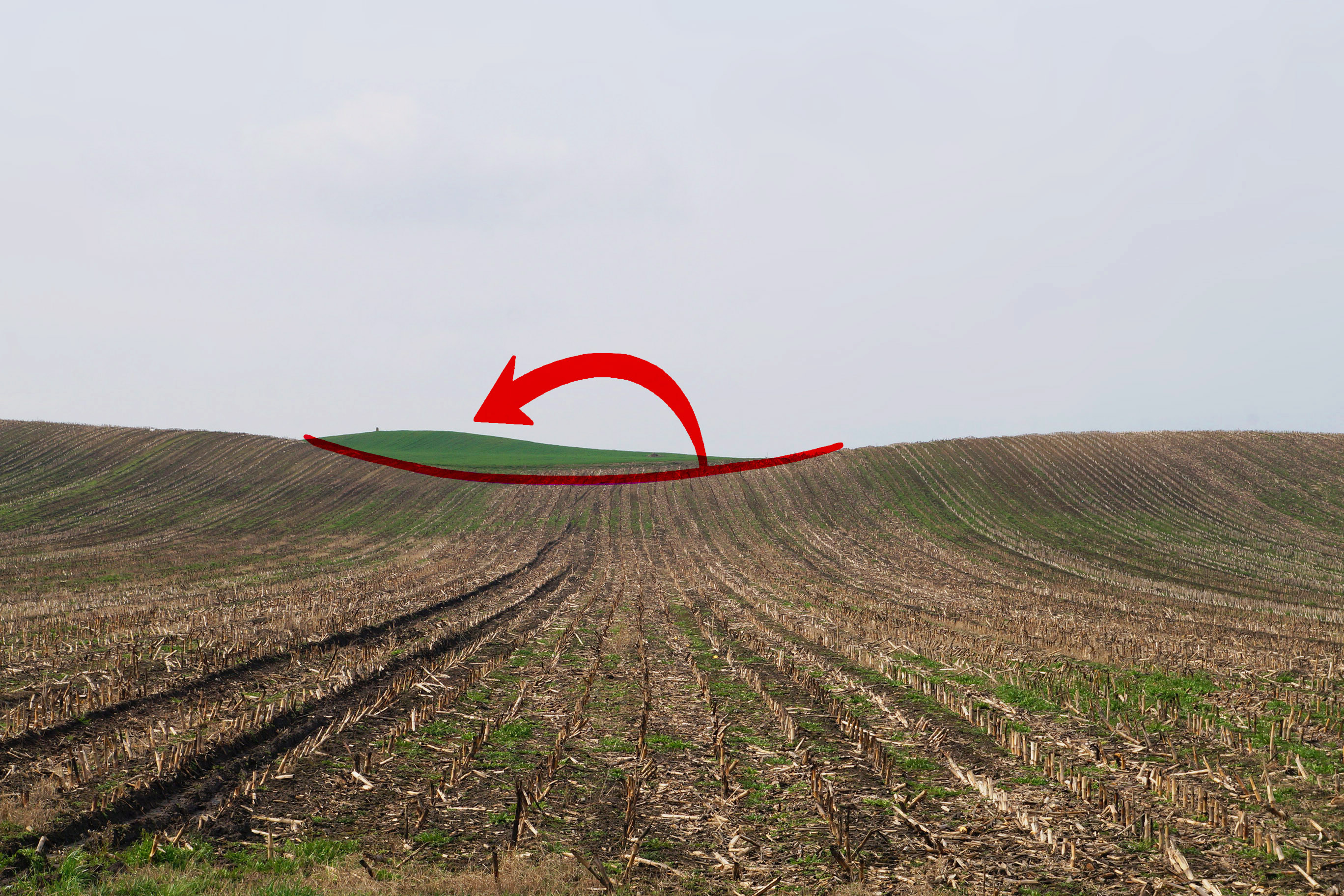 Kurgan Pap, near Senta Serbia, with earthworks trail typical for most kurgans. The added schematic arrow explains how the kurgan was built. BAC394